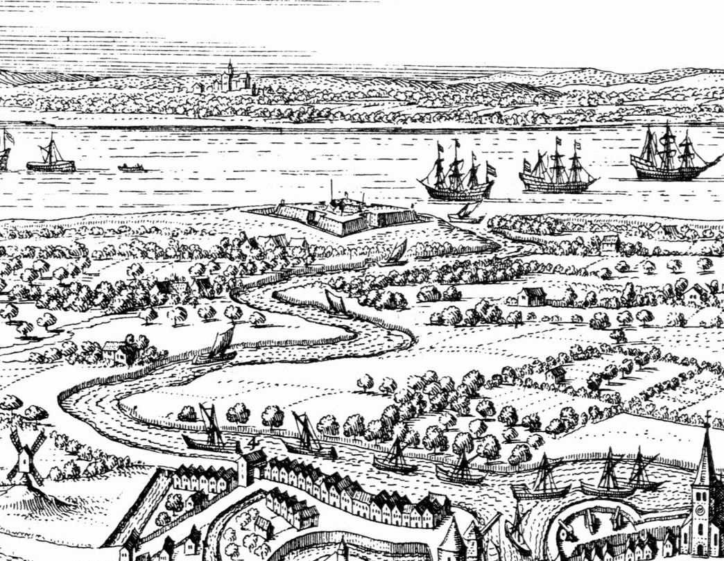 The fieldwork at the mouth of the River Schwinge that defended Stade during the Bremen-Verden campaign in 1676.